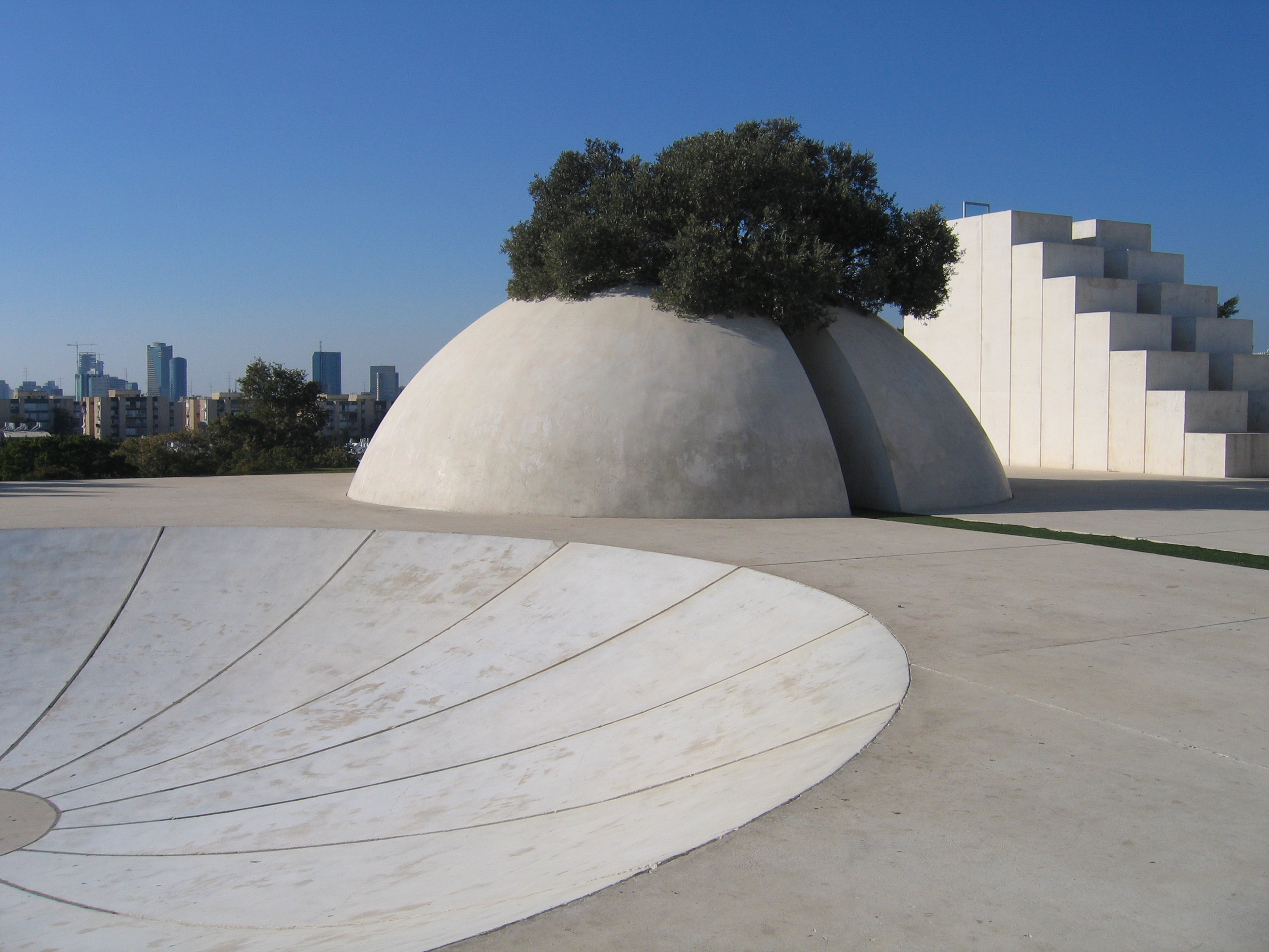 Kikar Levana (in he: "White Square") (1989) by Dani Karavan, Wolfson Park, Tel Aviv-Yaffo.